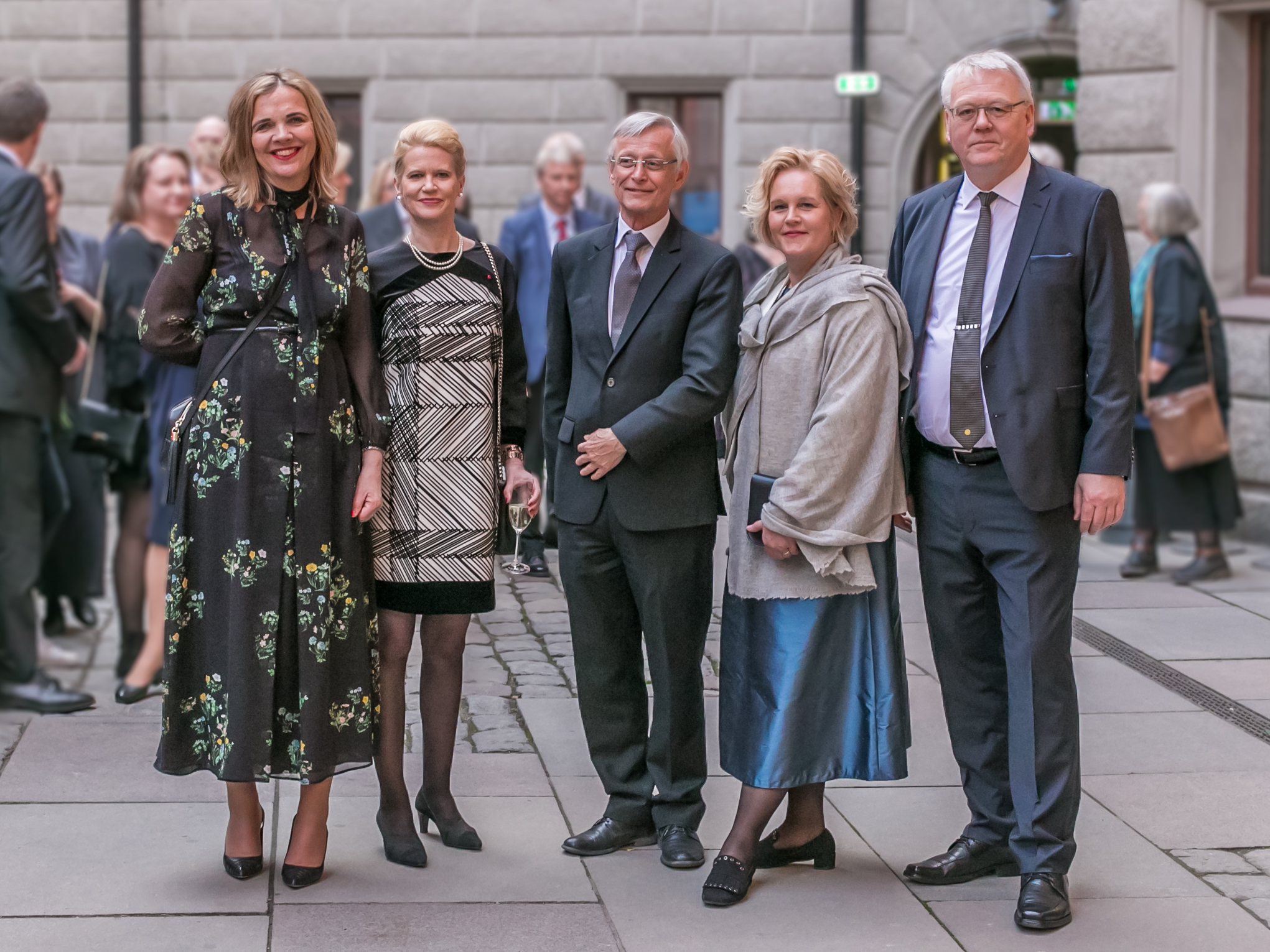 From left: Inga Bolstad, National archivist of Norway; Päivi Happonen, Research Director of the Finnish National Archives; Asbjørn Hellum, National archivist of Denmark; Karin Åström Iko, National archivist of Sweden; Eiríkur G. Guðmundsson, National archivist of Iceland. From the Swedish National Archives 400 years Anniversary in Stockholm, Sweden.